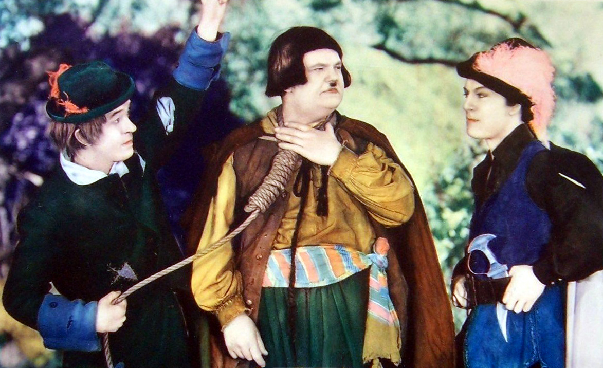 Cropped and edited lobby card for the 1933 film The Devil's Brother featuring Stan Laurel and Oliver Hardy. There are no copyright marks. At bottom right is Country of origin USA.